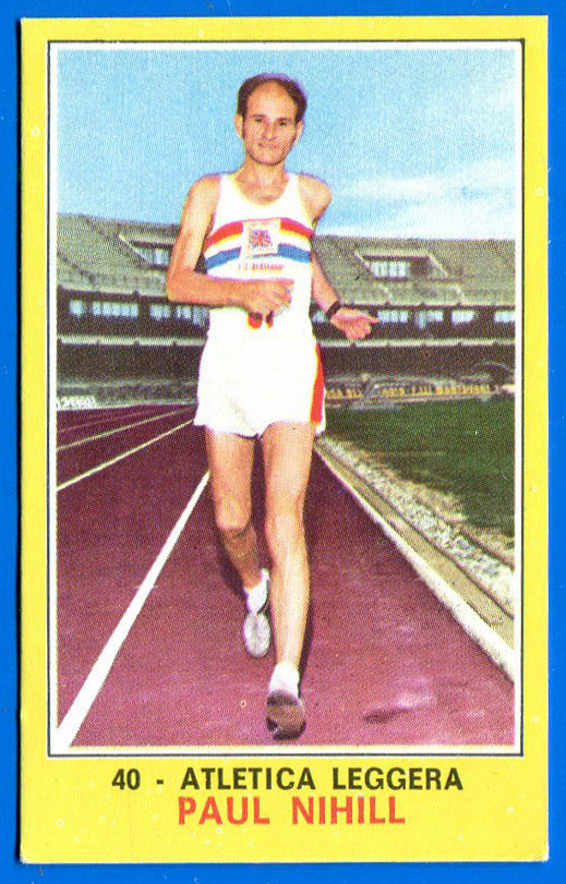 New Figurina CAMPIONI DELLO SPORT 1970/71-n. 40 - NIHILL - ATLETICA -Nuova